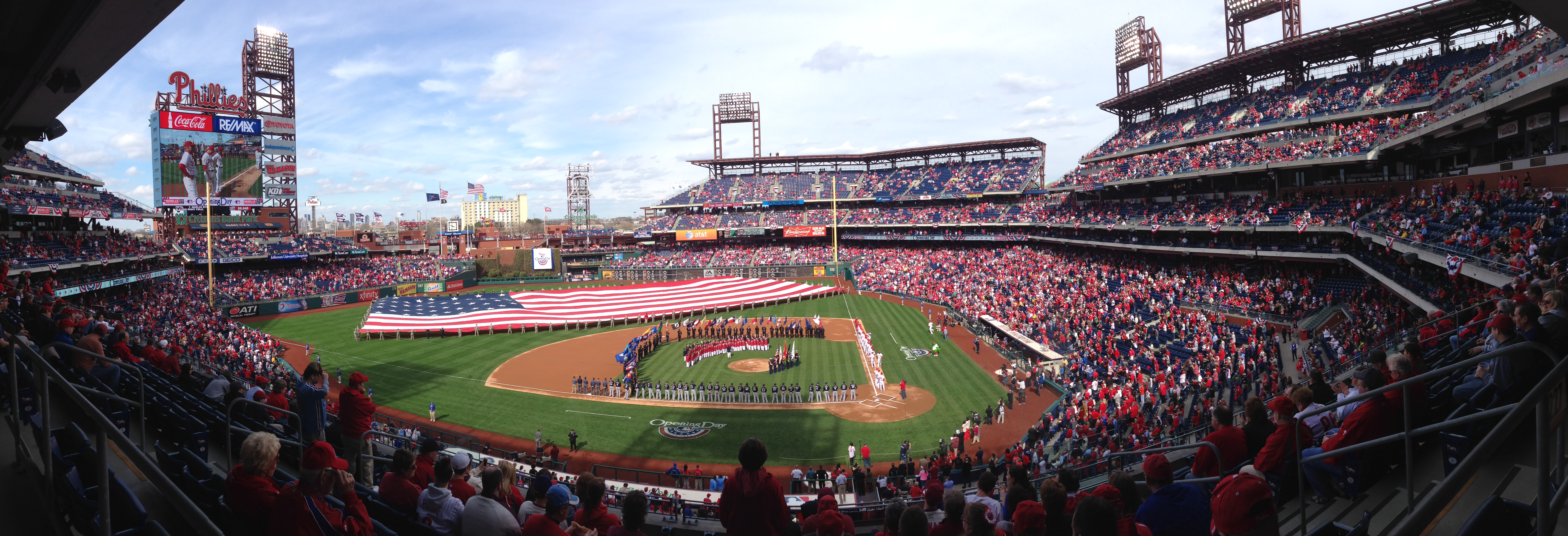 A panoramic shot of Citizens Bank Park on opening day, April 8, 2014.